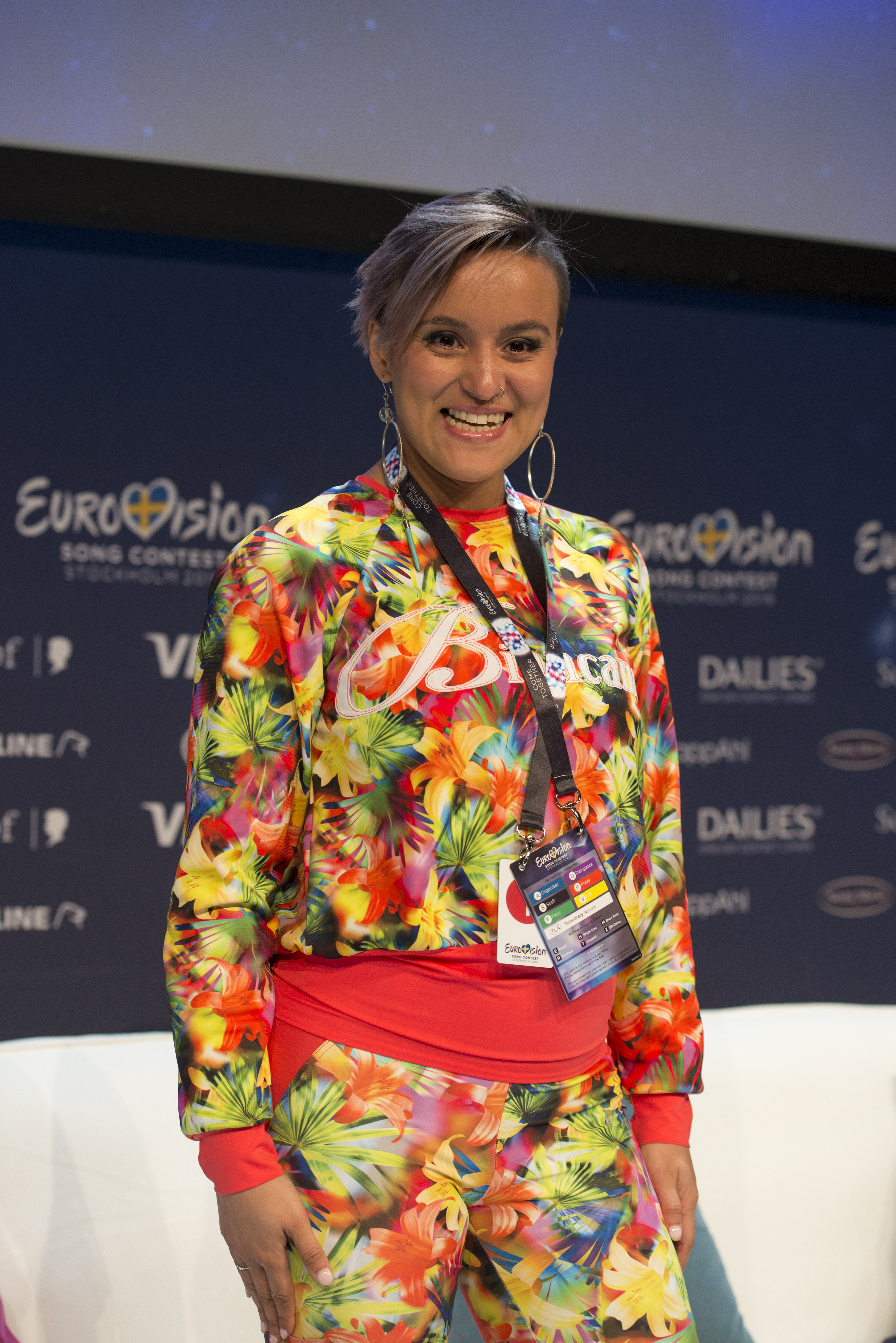 Sandhja at a Meet & Greet during the Eurovision Song Contest 2016 in Stockholm. (Help translate this text)